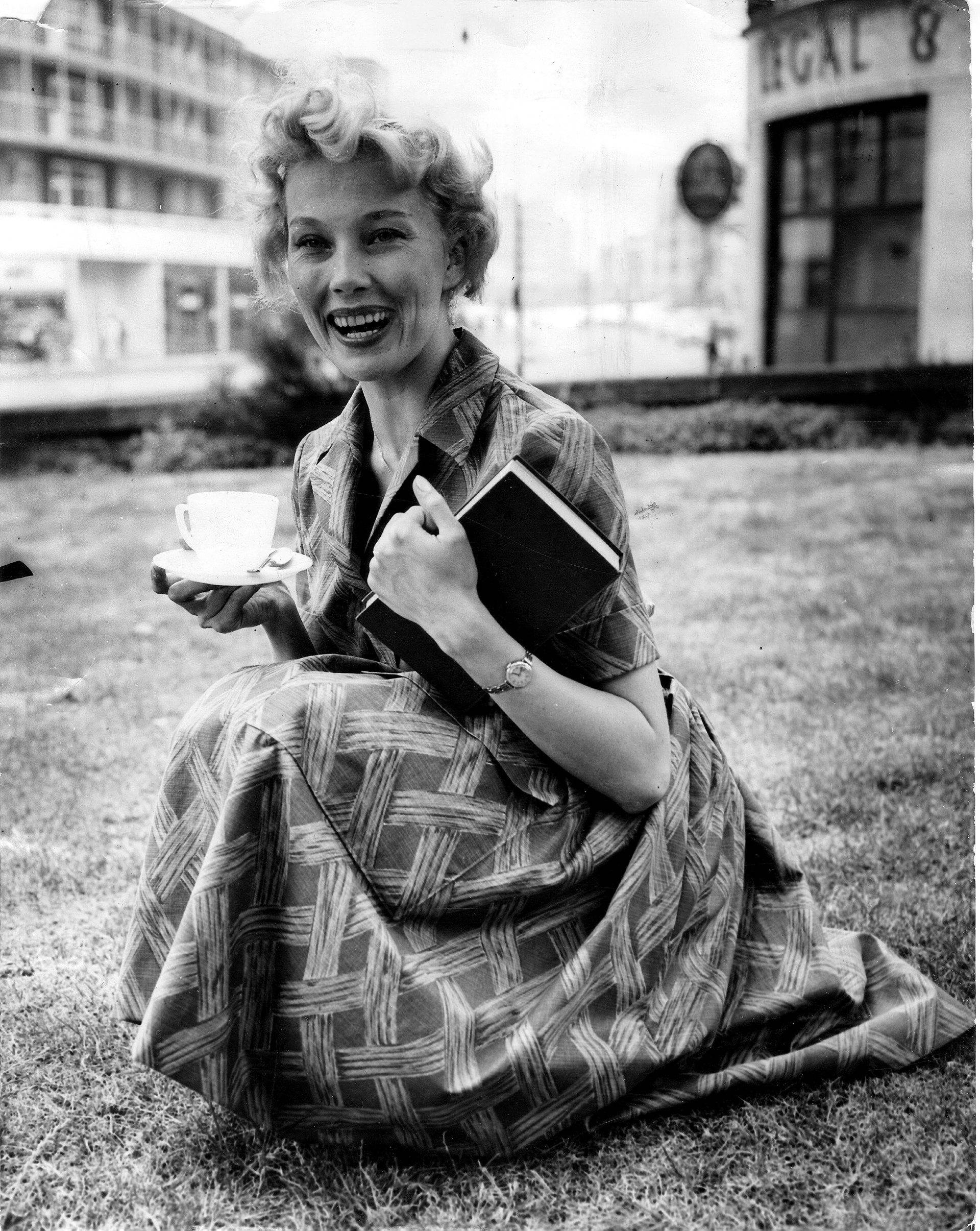 Photograph of the Finnish actress Tea Ista (1932–2014).